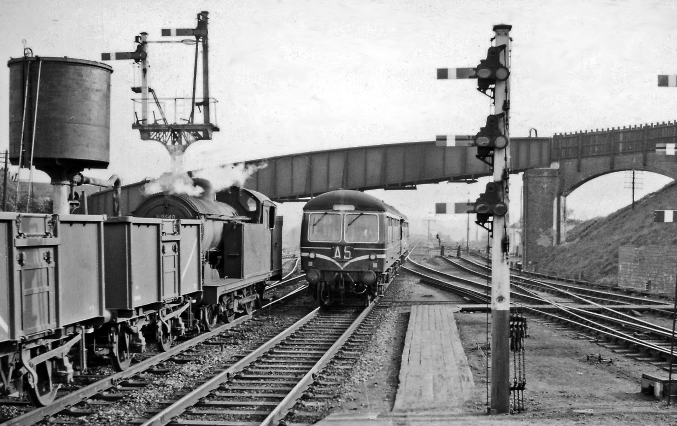 Diesel multiple-unit on Down service entering Hertford North Station, passing an Up empties. View southwards from the Down platform, towards Wood Green and London; ex-Great Northern Hertford Loop line. The DMU is a Craven unit, on the service from King's Cross. The Up goods is headed by N7/1 0-6-2T No. 69640.